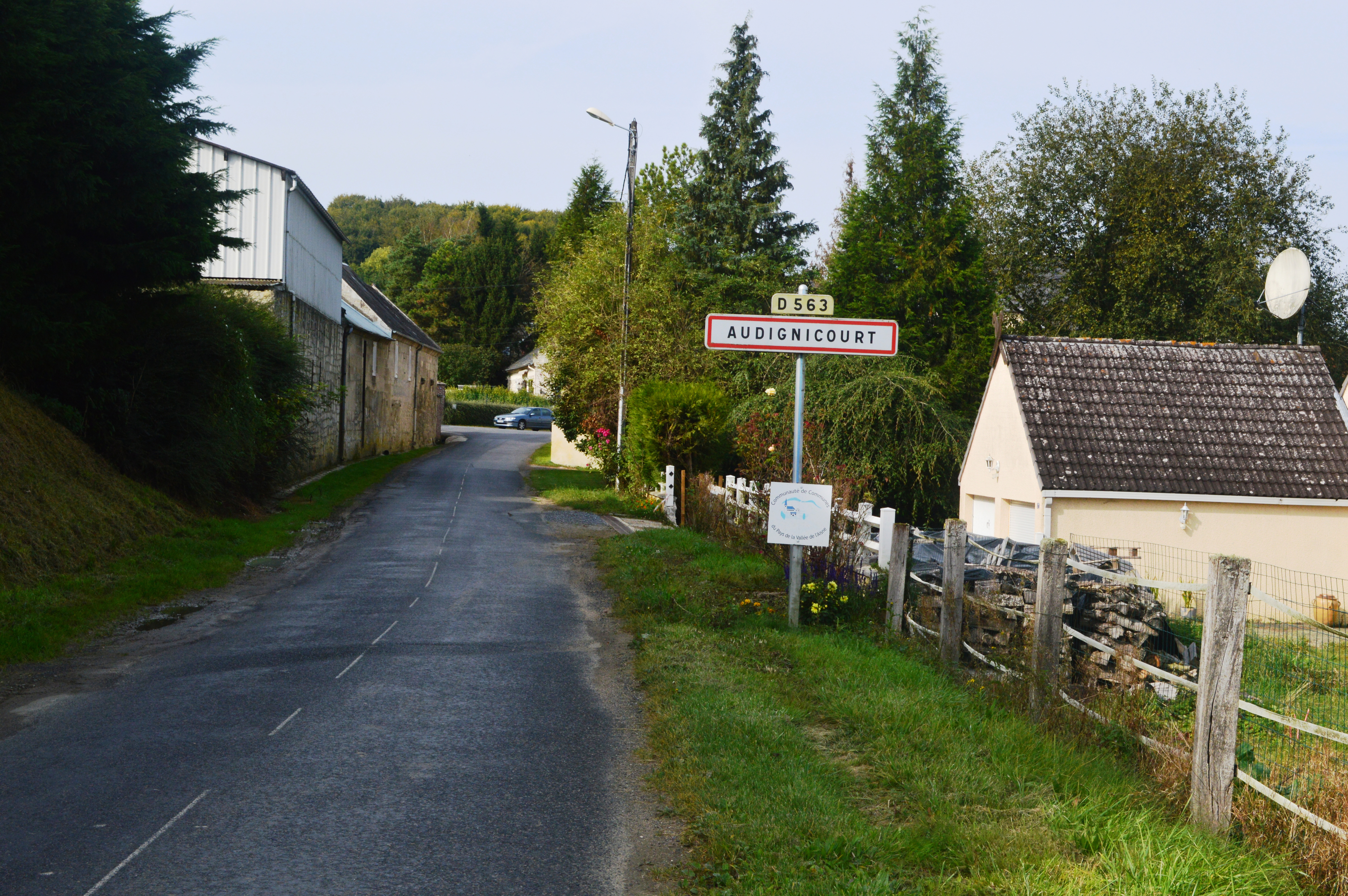 The entry to Audignicourt